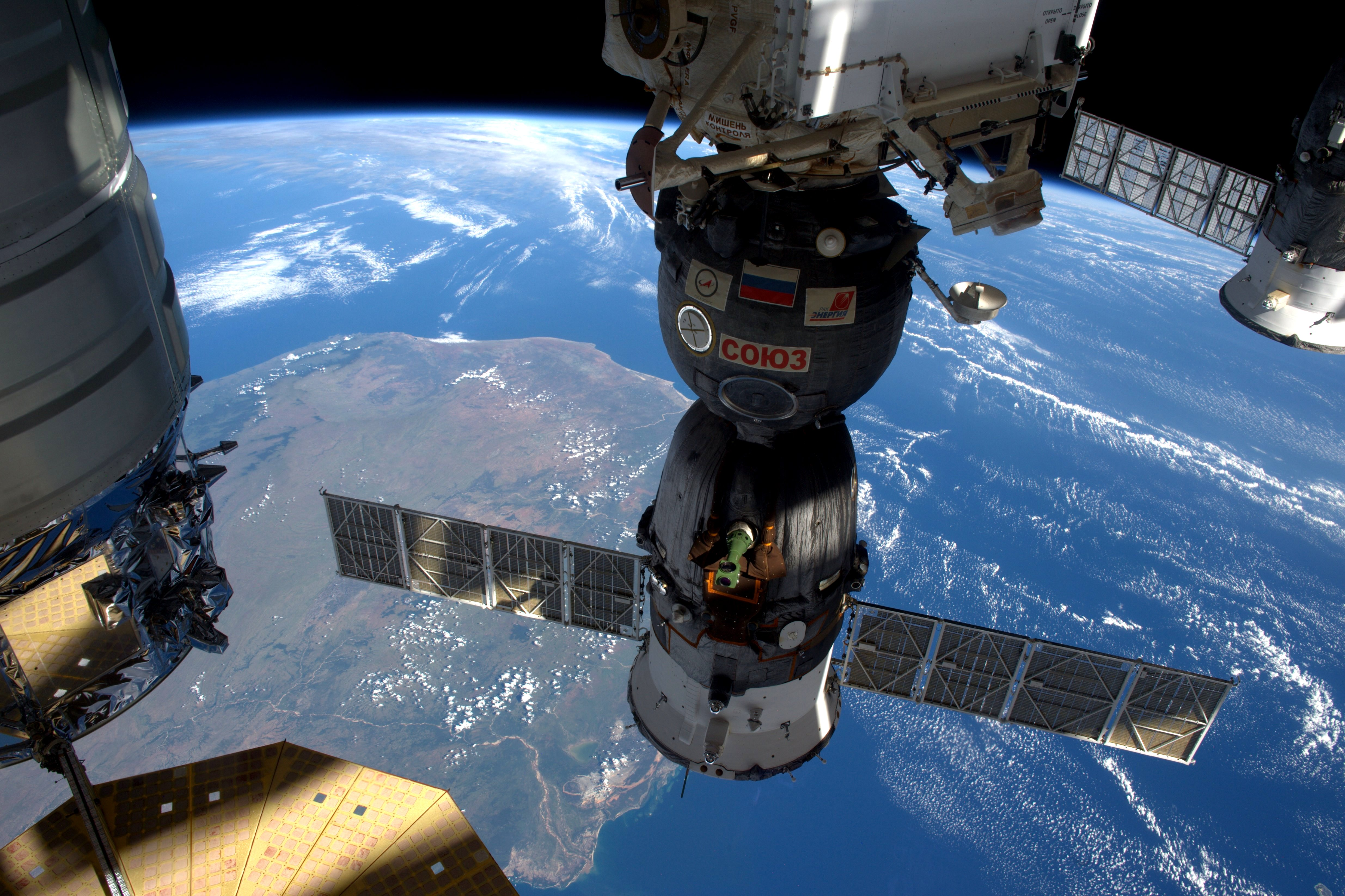 Expedition 47 Flight Engineer Tim Peake of the European Space Agency took this photograph on April 6, 2016, as the International Space Station flew over Madagascar, showing three of the five spacecraft currently docked to the station. The station crew awaits the scheduled launch today, April 8, of the third resupply vehicle in three weeks: a SpaceX Dragon cargo spacecraft, which will be the sixth spacecraft docked following its arrival and installation to the Harmony module on Sunday, April 10. Dragon is carrying 6,900 pounds (3,130 kilograms) of science, crew supplies and hardware; the largest payload is the Bigelow Expandable Activity Module (BEAM). The BEAM will be attached to the Tranquility module a week after its arrival for a series of habitability tests over two years. Orbital ATK's Cygnus cargo craft, visible at the left of this image, was bolted into place on the Earth-facing port of the station's Unity module on March 26, 2016. Although the SpaceX and Orbital ATK spacecraft have made 12 launches between them, this will be the first time that the two vehicles, contracted by NASA and developed by private industry to resupply the station, are connected to the space station at the same time.